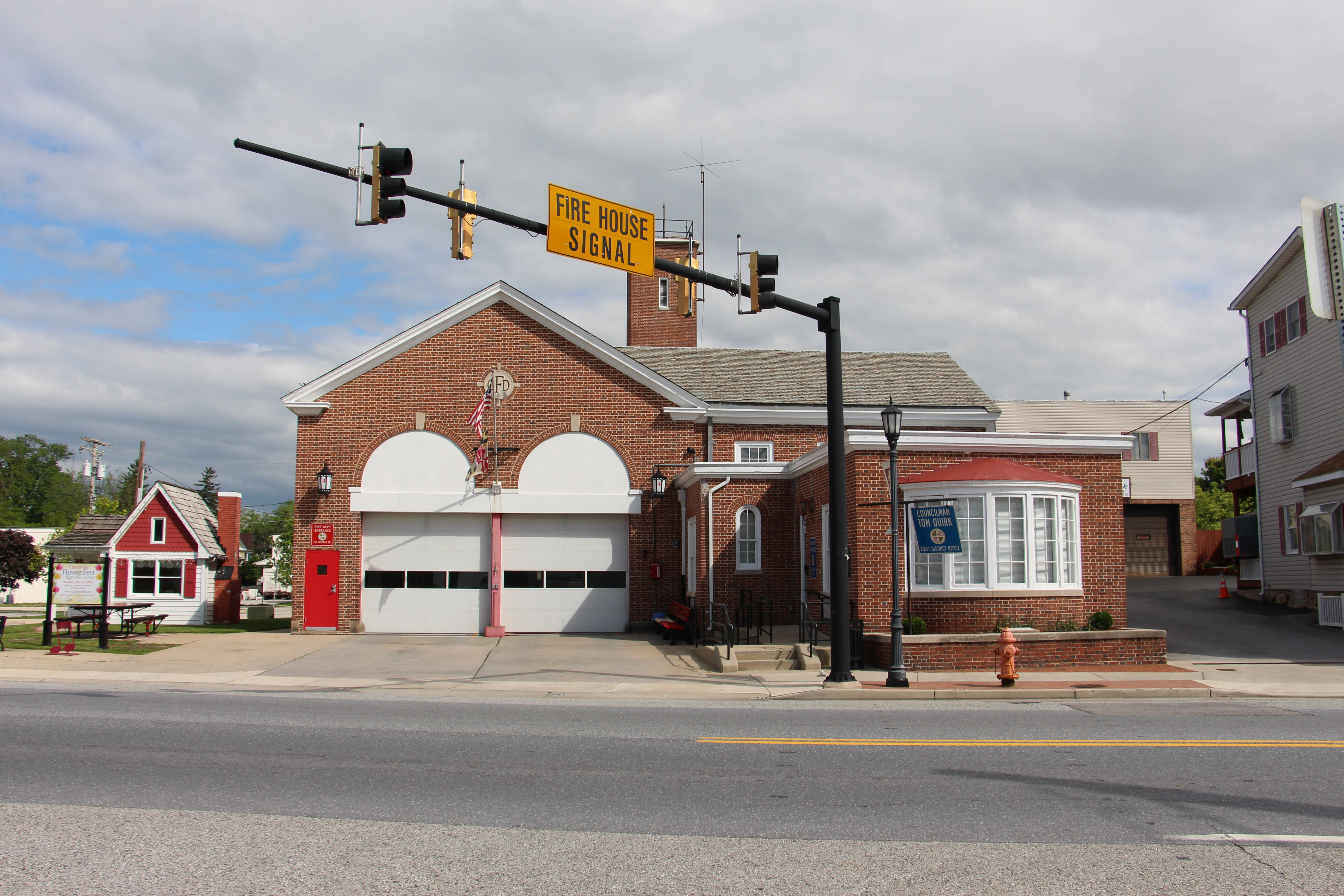 The Catonsville Firehouse, home of Baltimore County Fire Department Station 4 located on Frederick Road just west of Ingleside Avenue, is currently the oldest active running firehouse in all of Baltimore County. The building was constructed in 1928 originally as both a county fire and police department combination type building. The former police quarters section of the building now serves today as a Baltimore County Council office.